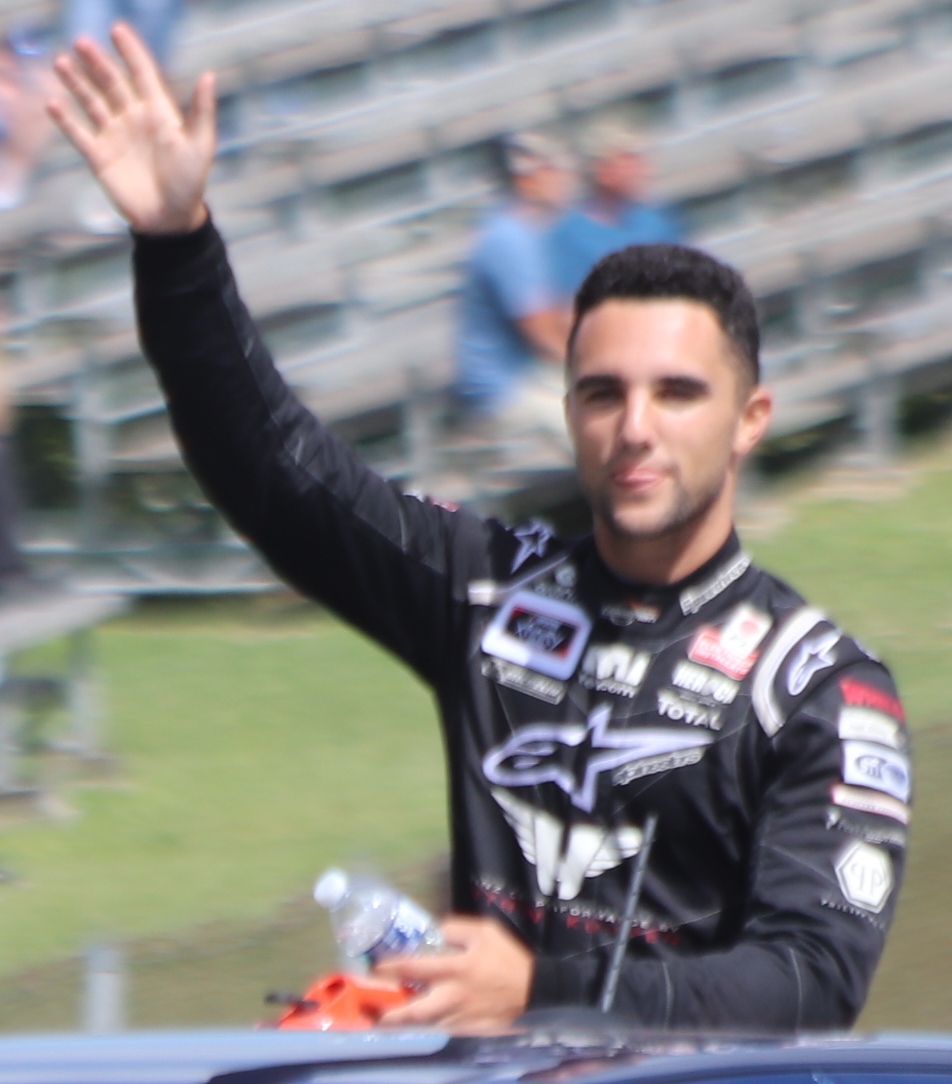 NASCAR driver Loris Hezemans waves to the crowd during drivers introductions at Road America